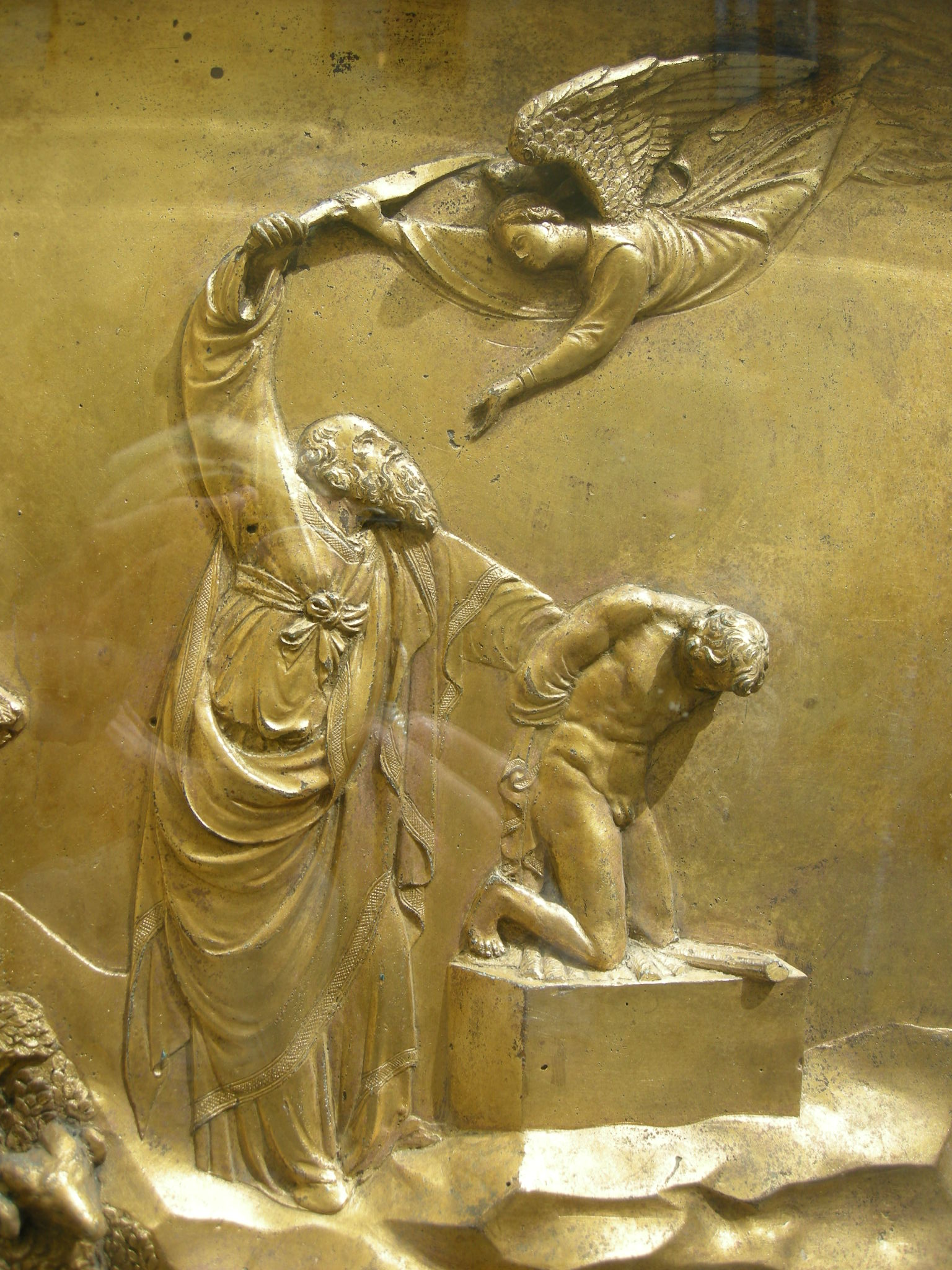 Abraham (Gates of Paradise)